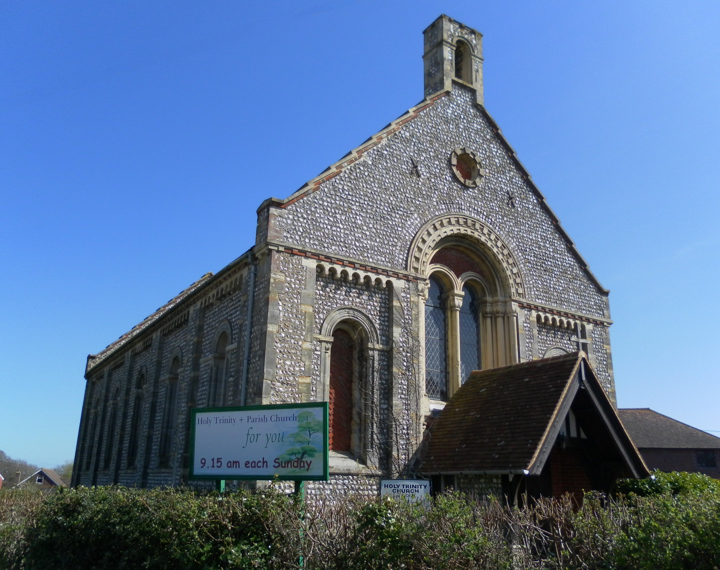 Holy Trinity Church, Upper Dicker, Wealden District, East Sussex, England. The Anglican church serving the village of Upper Dicker and its rural surroundings was built in 1843 to a design by William Donthorne.